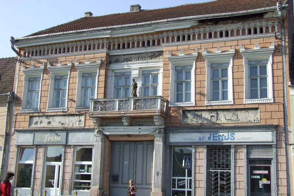 View from Sebeş, Alba County Romania